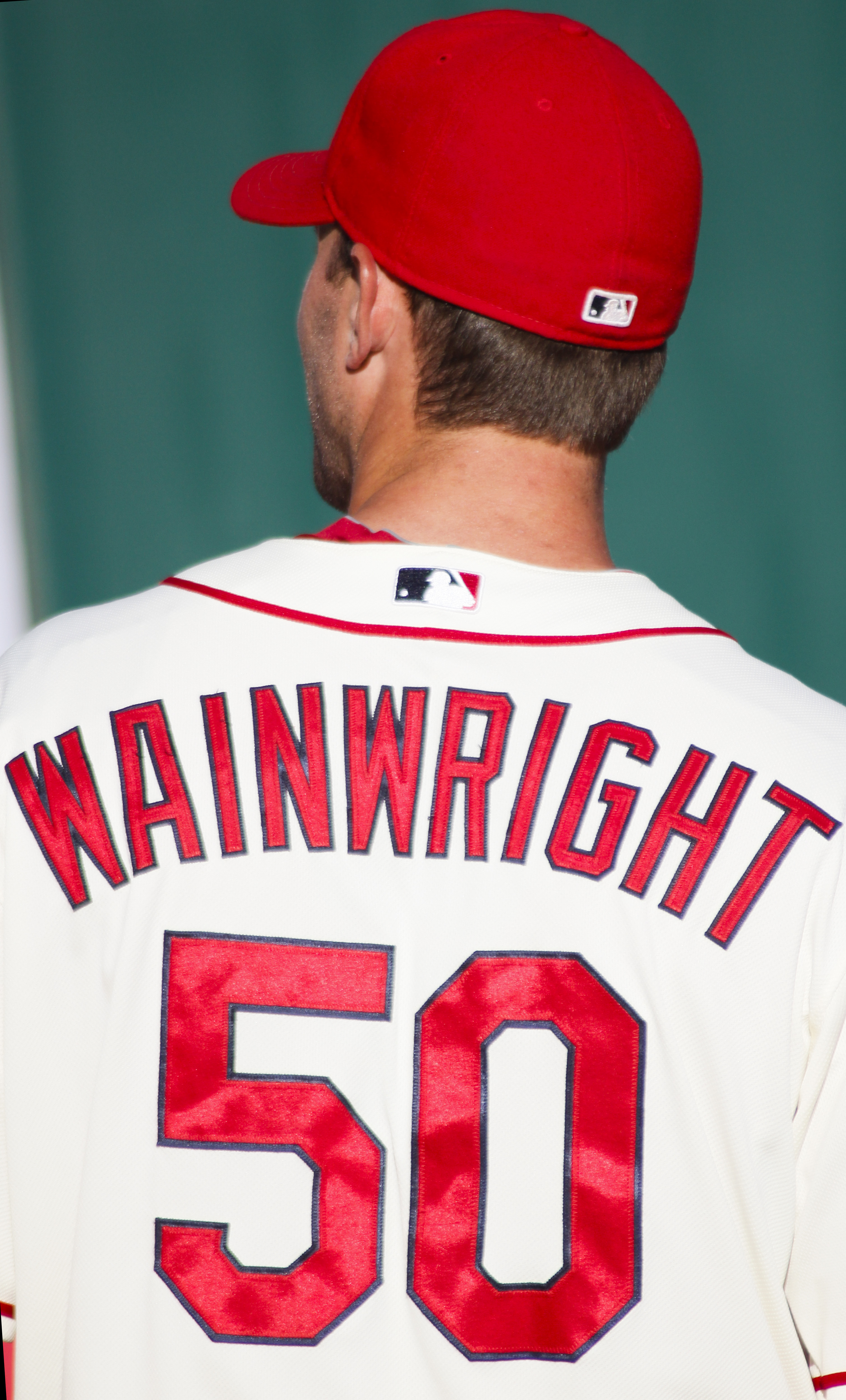 Adam Wainwright back.